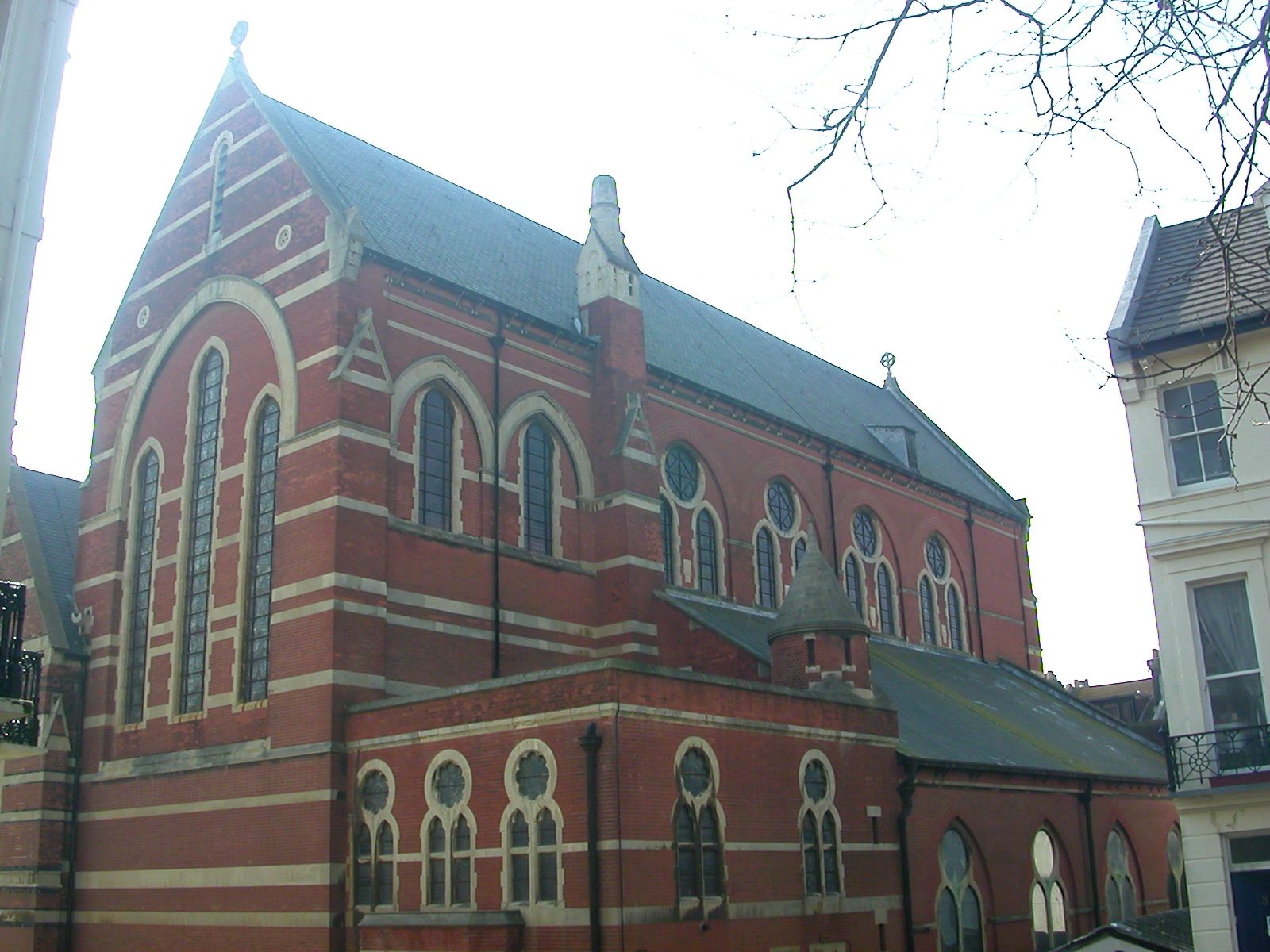 St Michael and All Angels Church, Brighton - north and east sides. Photographed on 31st March 2007.